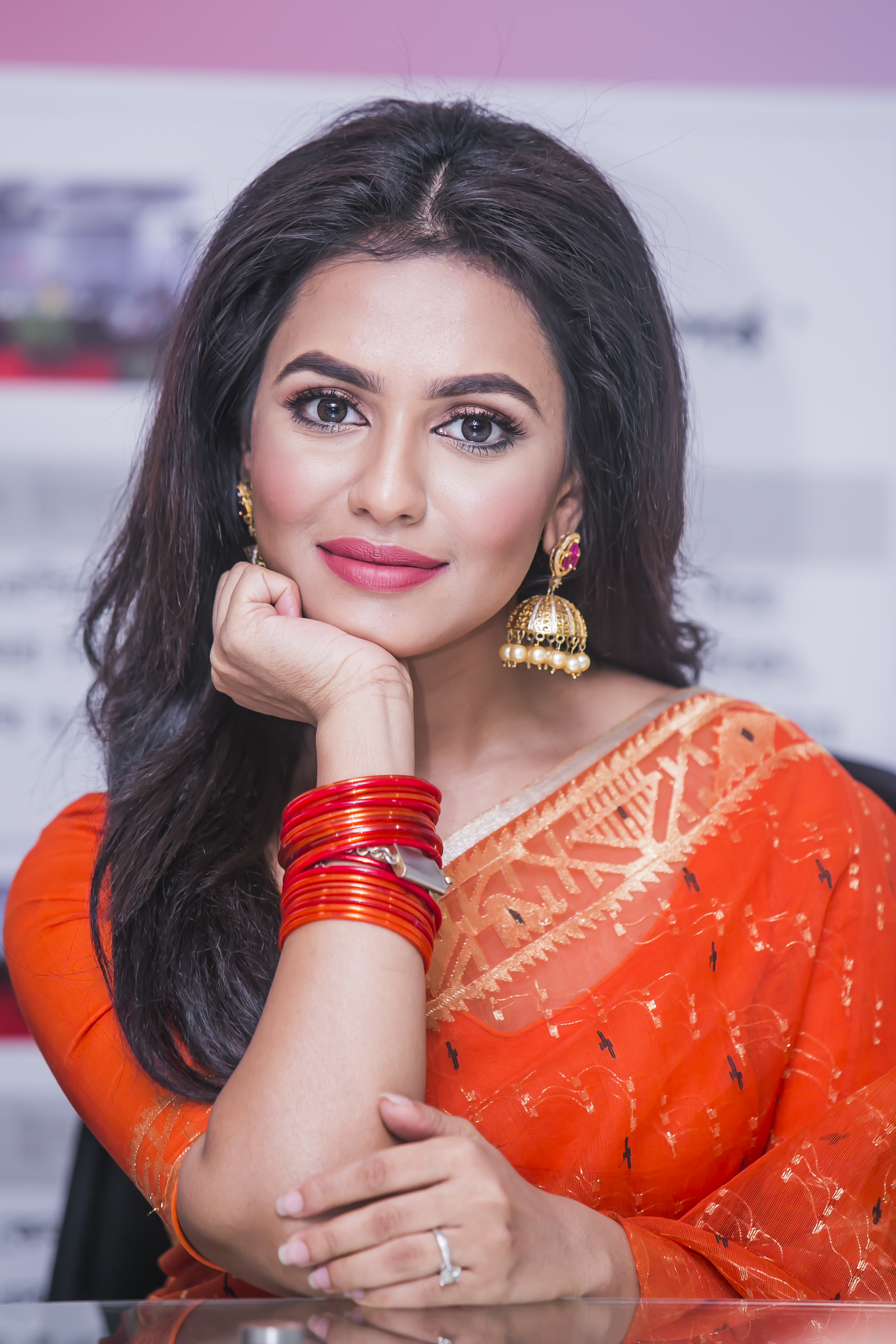 Nusrat Faria is a Bangladeshi film actress, model, television presenter and radio jockey.